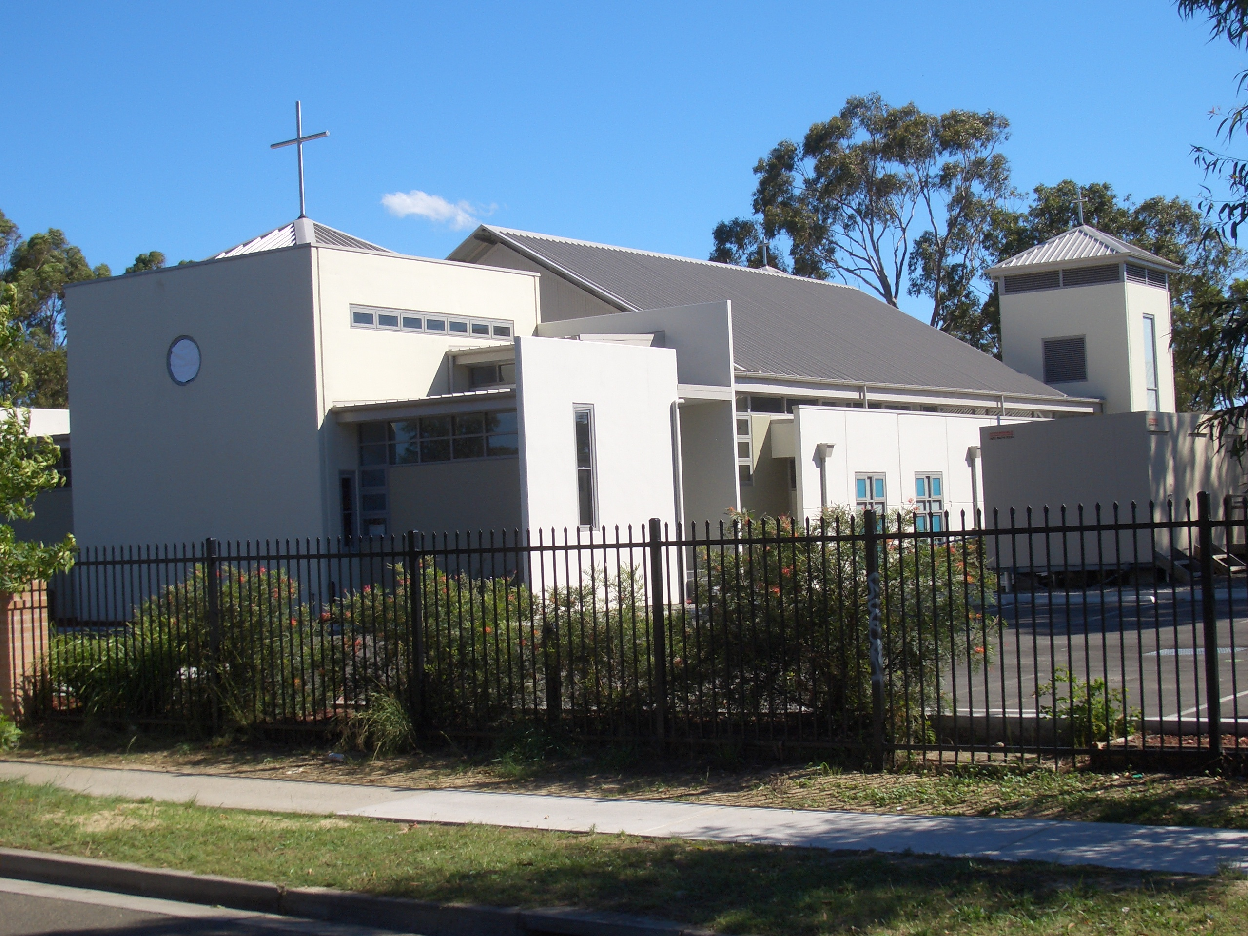 Wattle Grove Church, Village Way